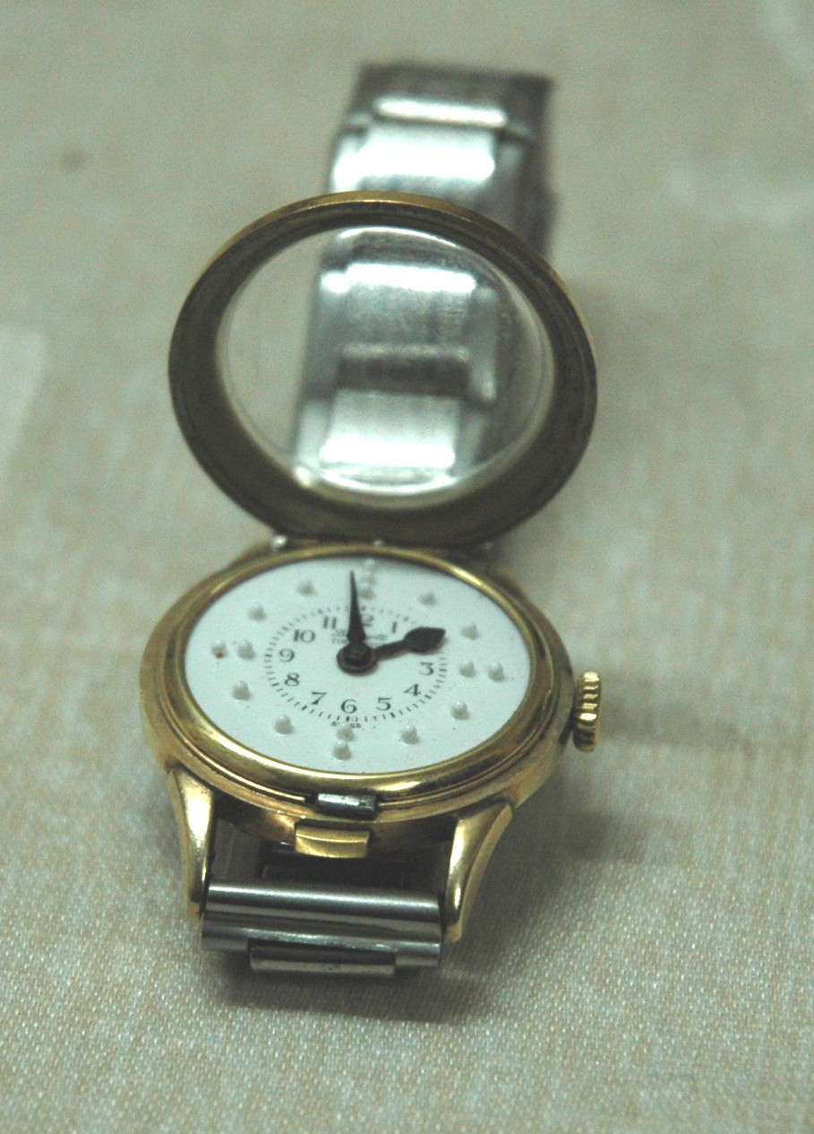 Watch for the . With loving memory of my great-grandfather Ephraim Rotter, who was blinded in the Holocaust and to whom this watch belonged.